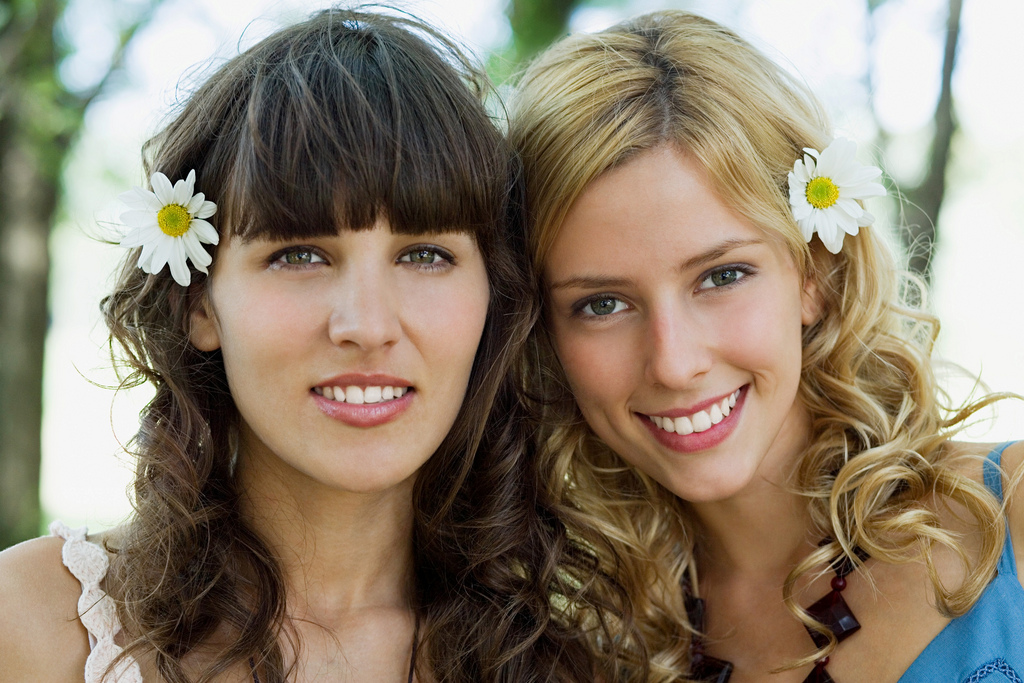 Portrait of two young women